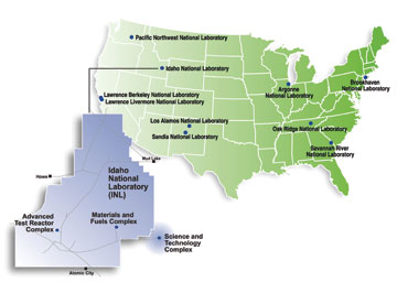 National Labs with AFCI programs